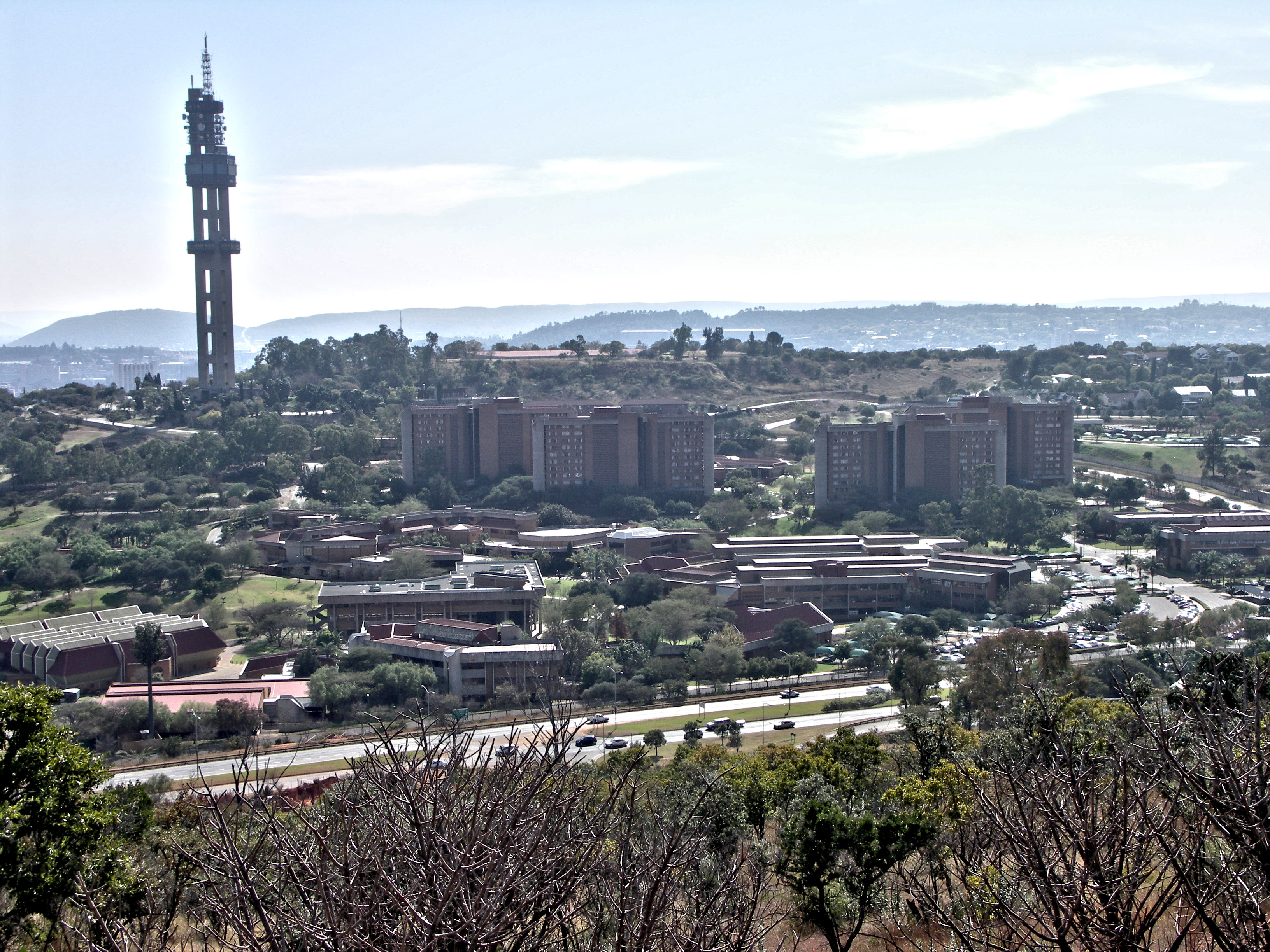 University of Pretoria, Groenkloof Campus, photo taken from Klapperkop